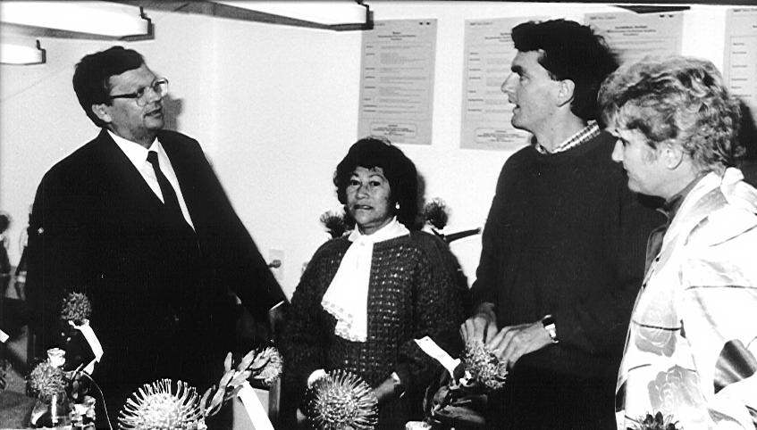 Official visit by Prime Minister, David Lange, December 1986